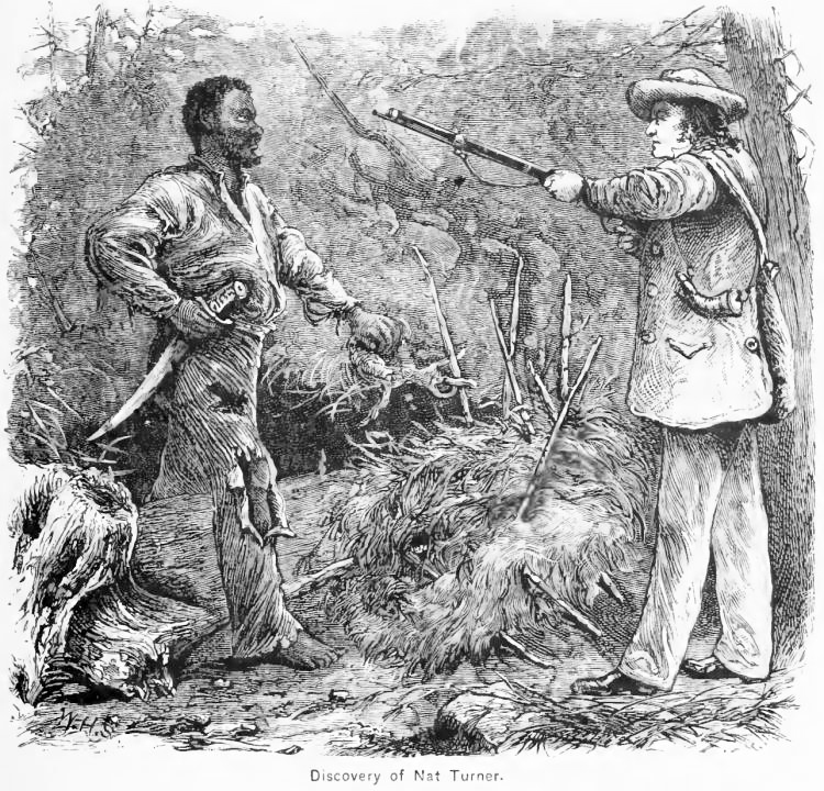 Discovery of Nat Turner: wood engraving illustrating Benjamin Phipps's capture of Nat Turner (1800-1831) on October 30, 1831